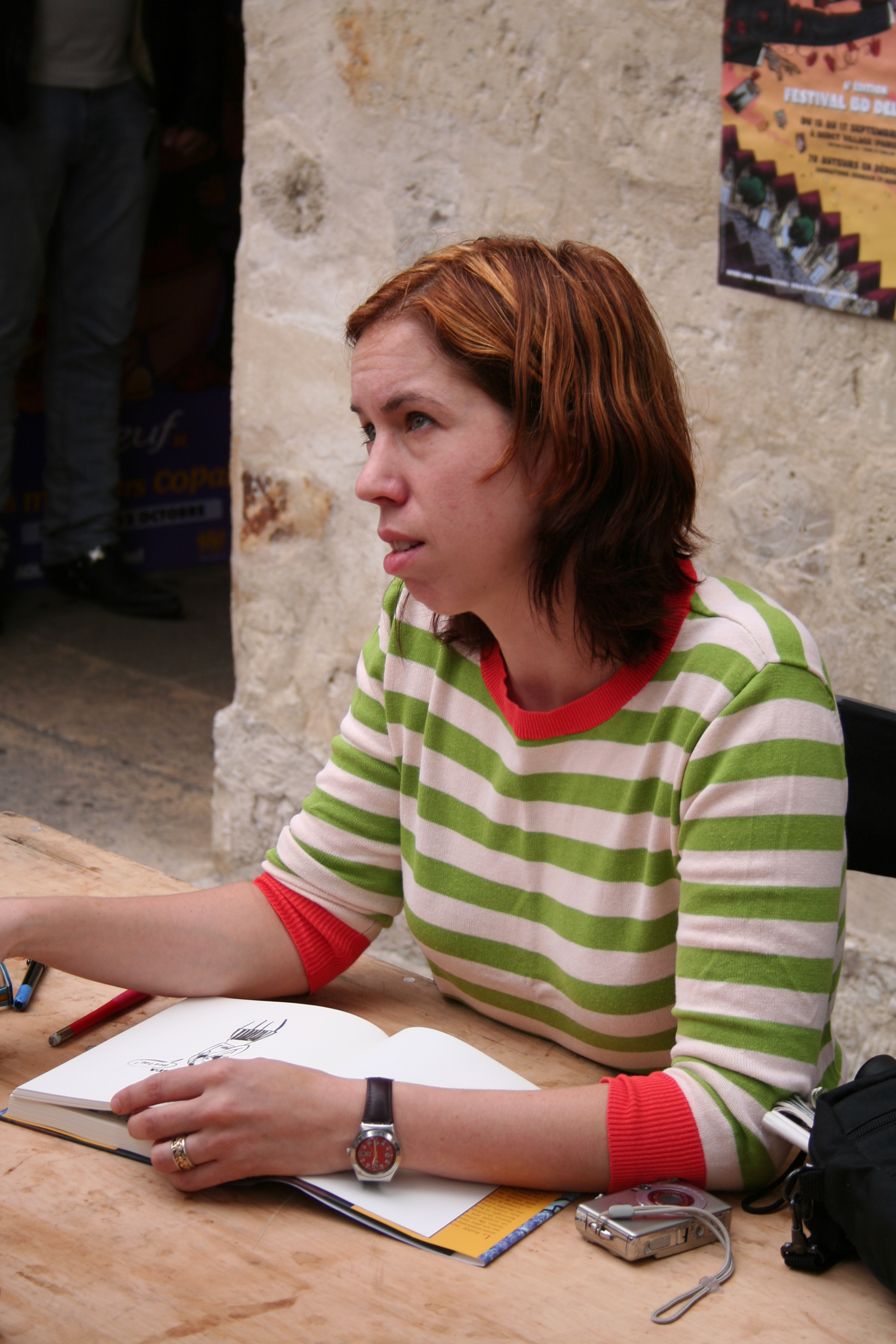 Autograph session with Jessica Abel at Delcourt festival 2006 (Paris, France).